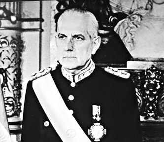 Image of former Argentine president Reynaldo Bignone.